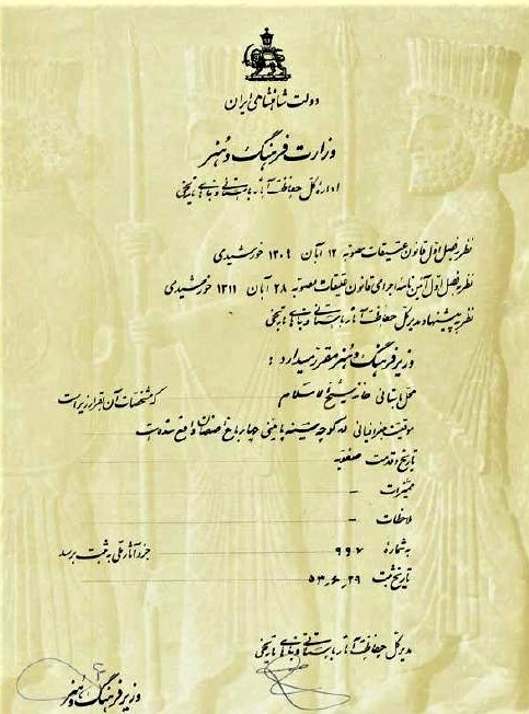 Official document issued by Ministry of Art and Culture for Registering Khaneh (House) of Sheikholeslam as Iran's National Heritage in 1974